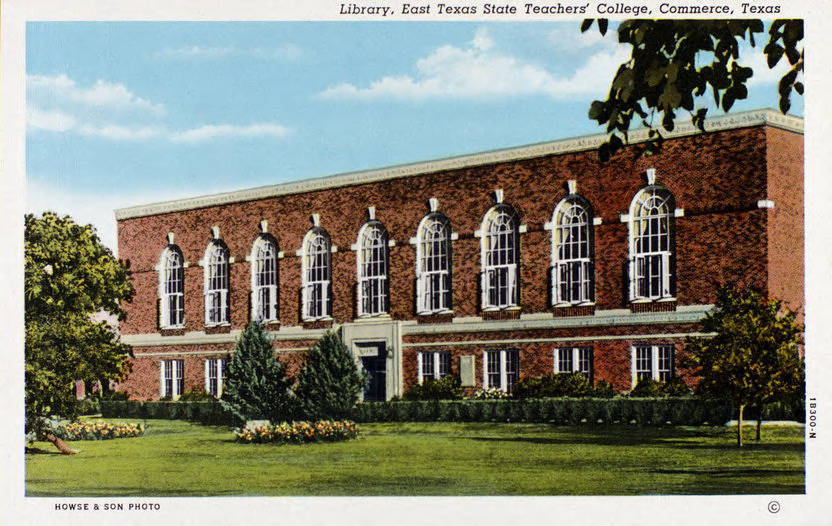 Postcard view of the library at East Texas State Teachers College.